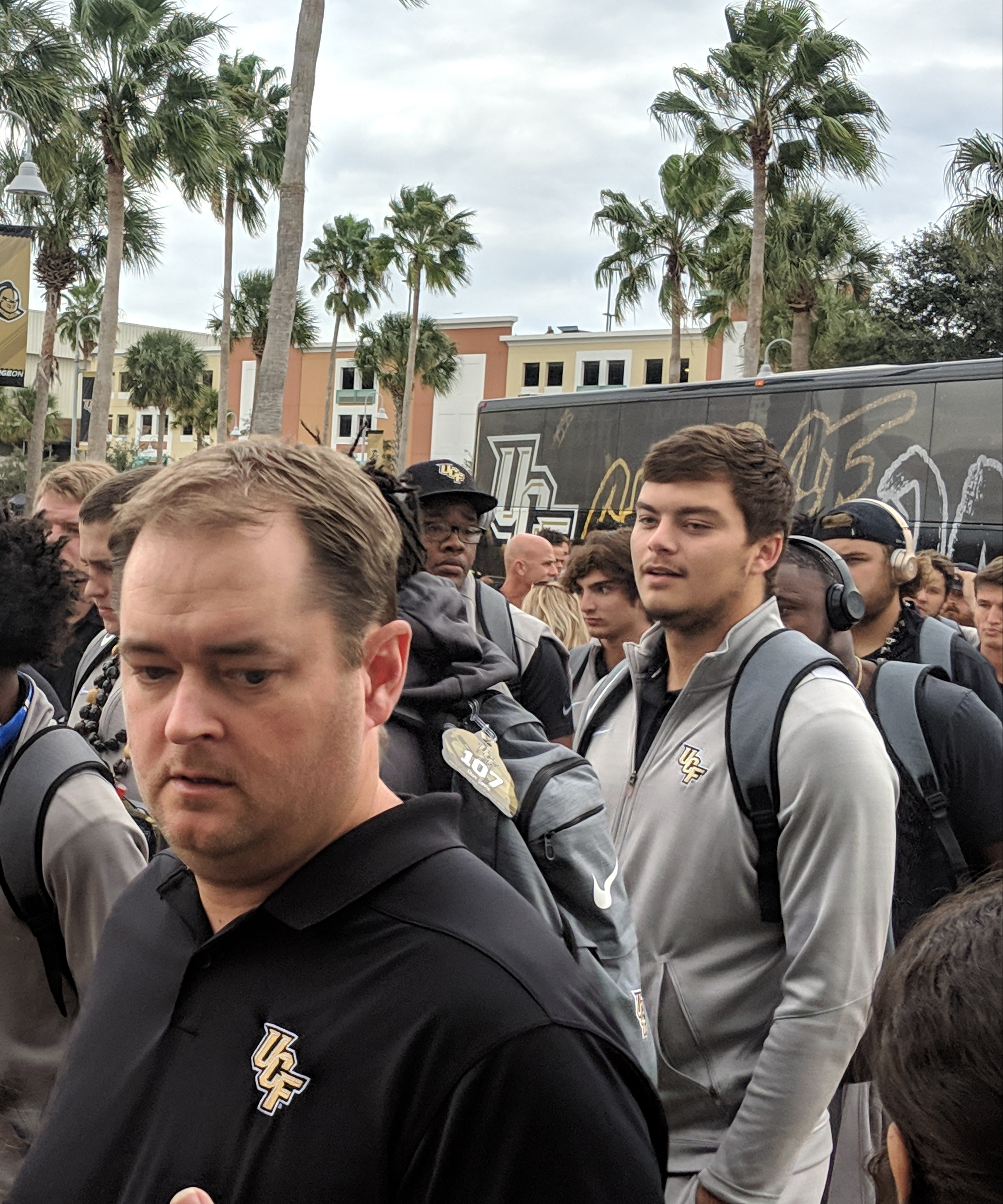 Coach Josh Heupel at the Knight Walk before the 2018 American Athletic Conference Championship. I cropped his kids out of the picture for their privacy.